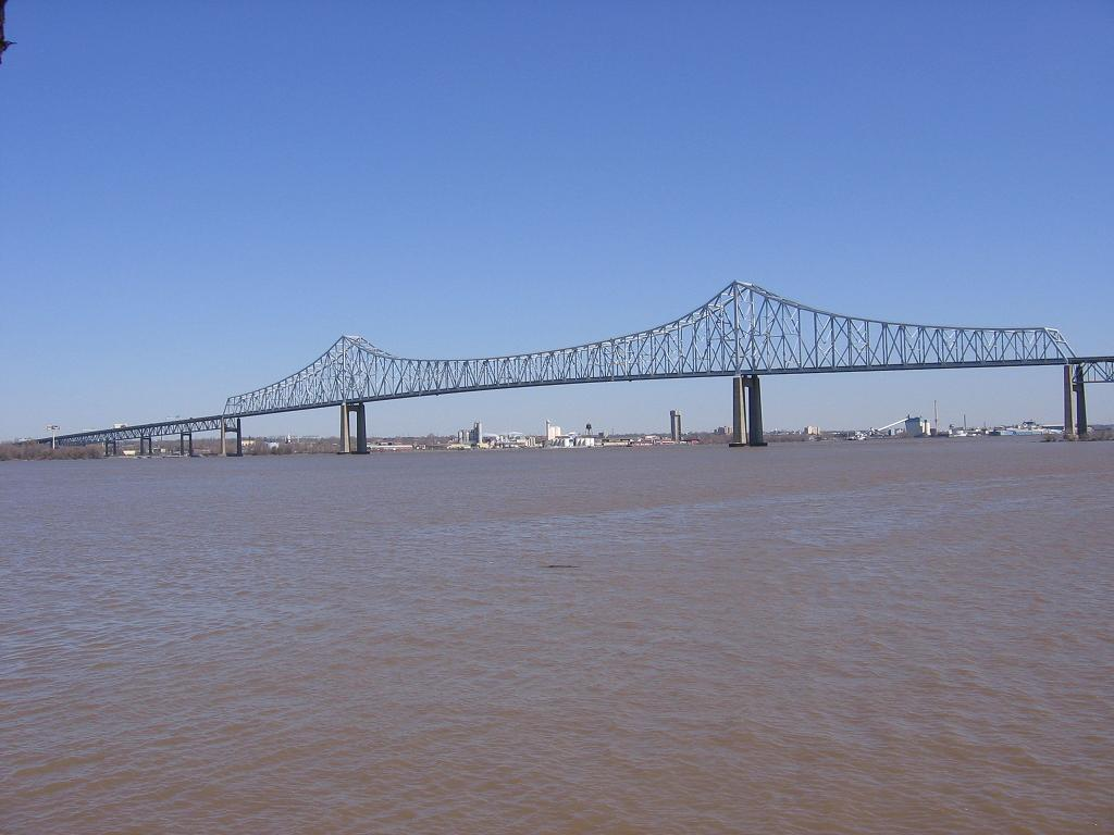 This picture was taken by Jim Dietrich on the banks of the Delaware River on April 9, 2005, from the old access road to the former ferry (Ferry Rd) in Bridgeport, NJ. In the background, you can see the current waterfront of Chester, PA.